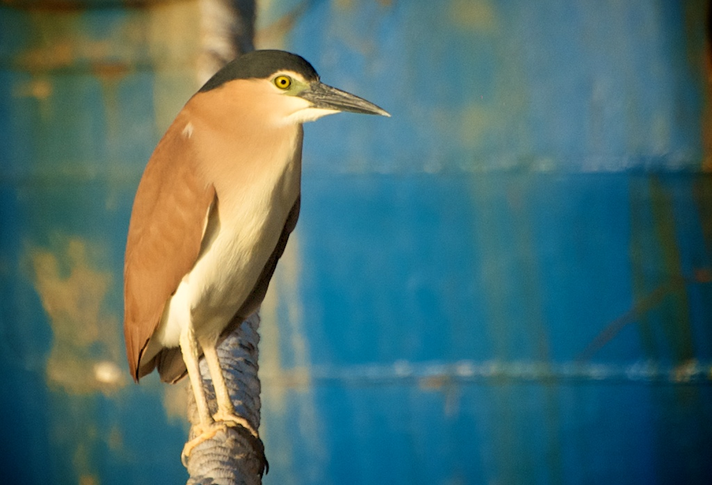 Nankeen Night-heron, Fremantle Harbour, 2010.